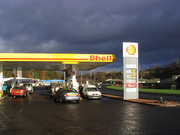 Shell filling station at Jedburgh A burst of low-angle November sunshine provides dramatic lighting to this forecourt scene by the A68 on the northern edge of Jedburgh. The pump price for unleaded is 103.9 p/litre and diesel is 106.9 p/litre. Fuel prices continue to be volatile. I filled up here last weekend at 103.9 p/litre for diesel, while at a Shell station at Galashiels 14 miles away, diesel is 110.9 p/litre.